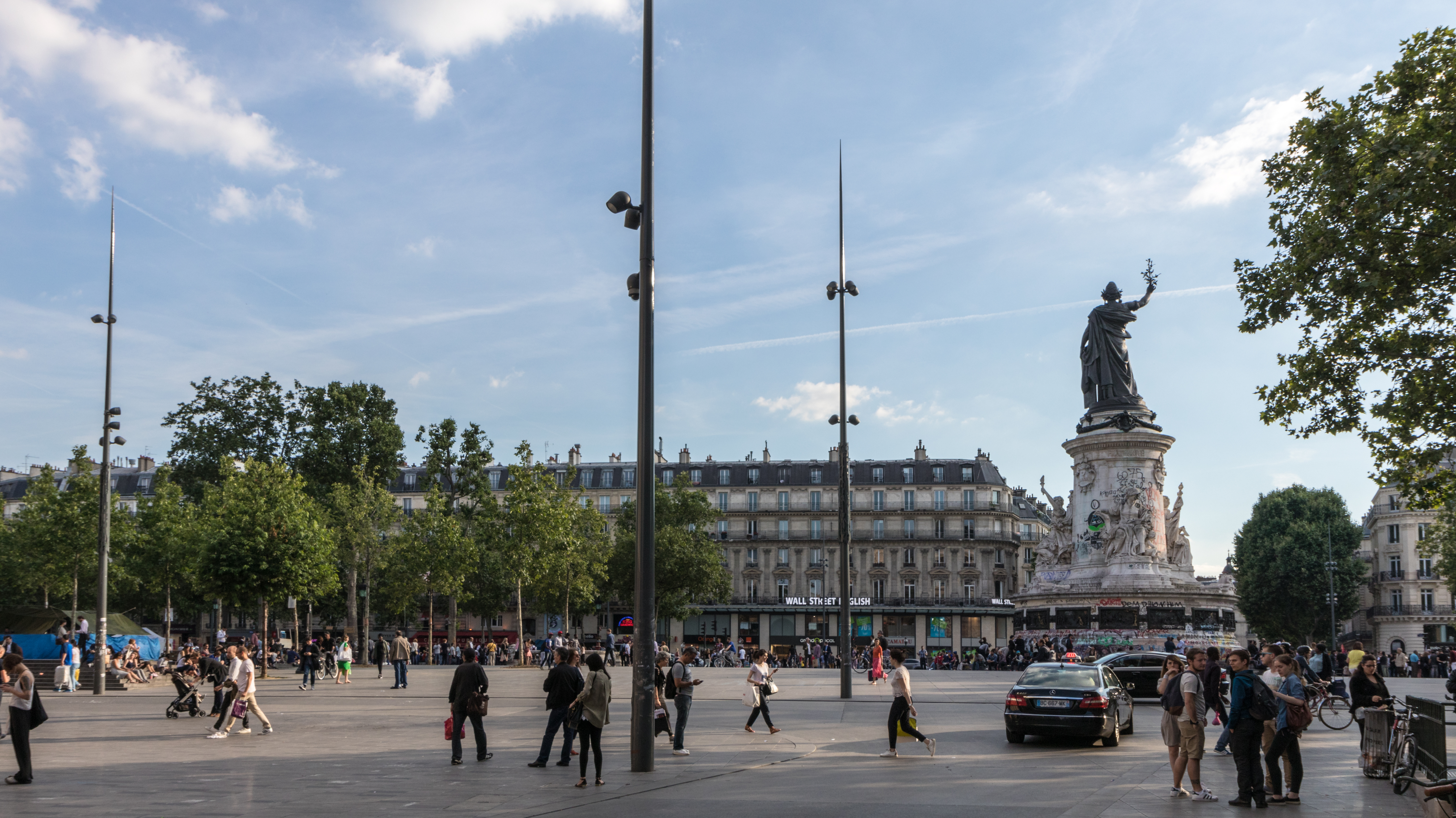 A most fascinating place, glad i got off the normal tourist track